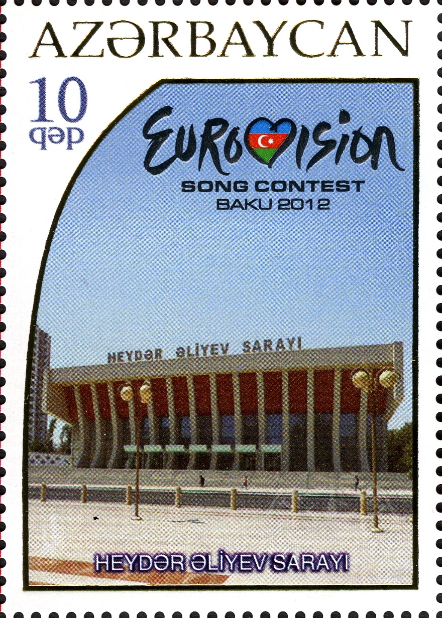 "Eurovision - 2012" song contest